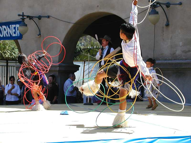 Native American Indians performing a Hoop Dance (commonly performed at a pow wow)